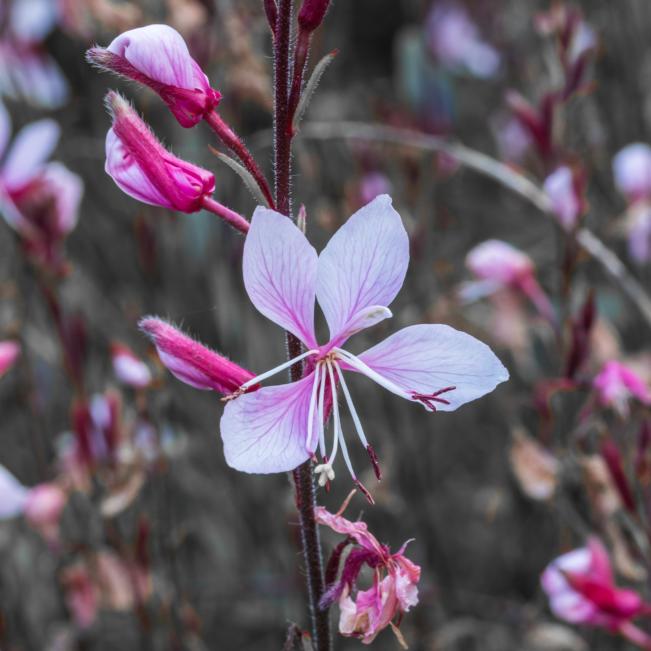 Gaura lindheimeri, wonderful candle. Location, De Kruidhof Buitenpost.